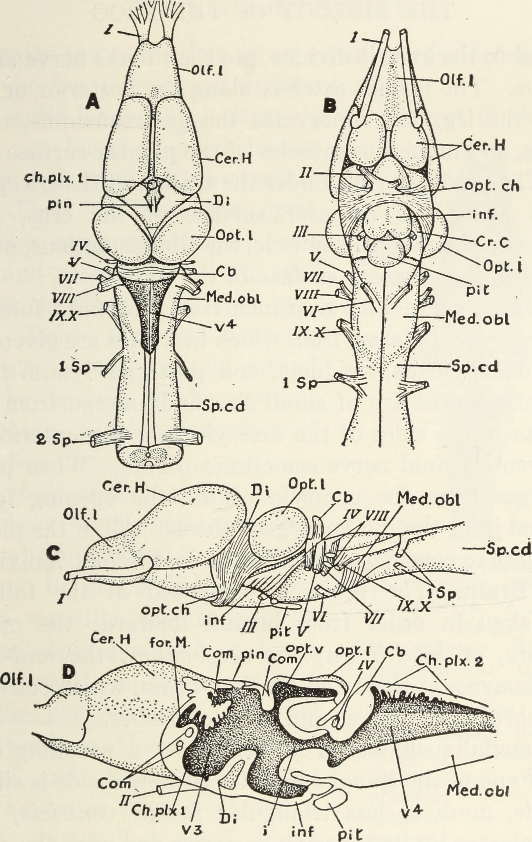 Title: The biology of the frog Year: 1927 (1920s) Authors: Holmes, Samuel J. (Samuel Jackson), 1868- Subjects: Frogs Publisher: New York : The Macmillan company Text Appearing Before Image: ' Text Appearing After Image: Fig. 101.—Brain of frog. A, dorsal side; B, ventral side ; C, left side ; D, in vertical longitudinal section through the middle. 06, cerebellum; Cer.H, cerebral hemispheres; ch.plx1 anterior, and ch.plx2 posterior, choroid plexus ; com, commissures connecting the right and left halves of the brain ; Cr.C, crura cerebri; Di, dien- cephalon, or thalamencephalon ; for.M, foramen of Monro ; i, iter, or aqueduct of Sylvius; inf, infundibulum; Med.obl, medulla oblon- gata; Olf.l, olfactory lobe; Opt.l, optic lobe; opt.v, optic vesicle; pin, pineal body ; pit, pituitary body ; Sp.ed, spinal cord ; v3, third ventricle ; v*, fourth ventricle ; I-X, cranial nerves; 1 Sp, 2 8p, first and second spinal nerves. (From Newman, slightly modified from Parker and Parker's Zoology.)